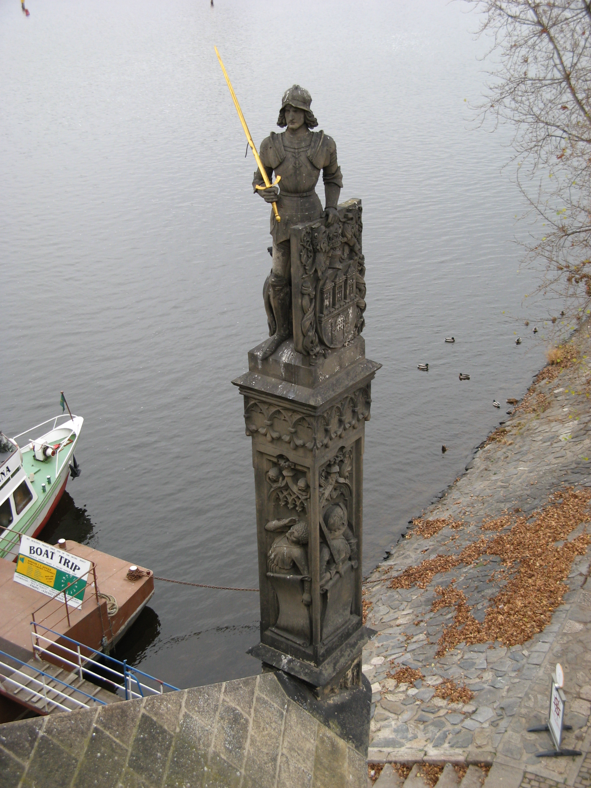 Charles Bridge - Statue of Bruncvík, Malá Strana